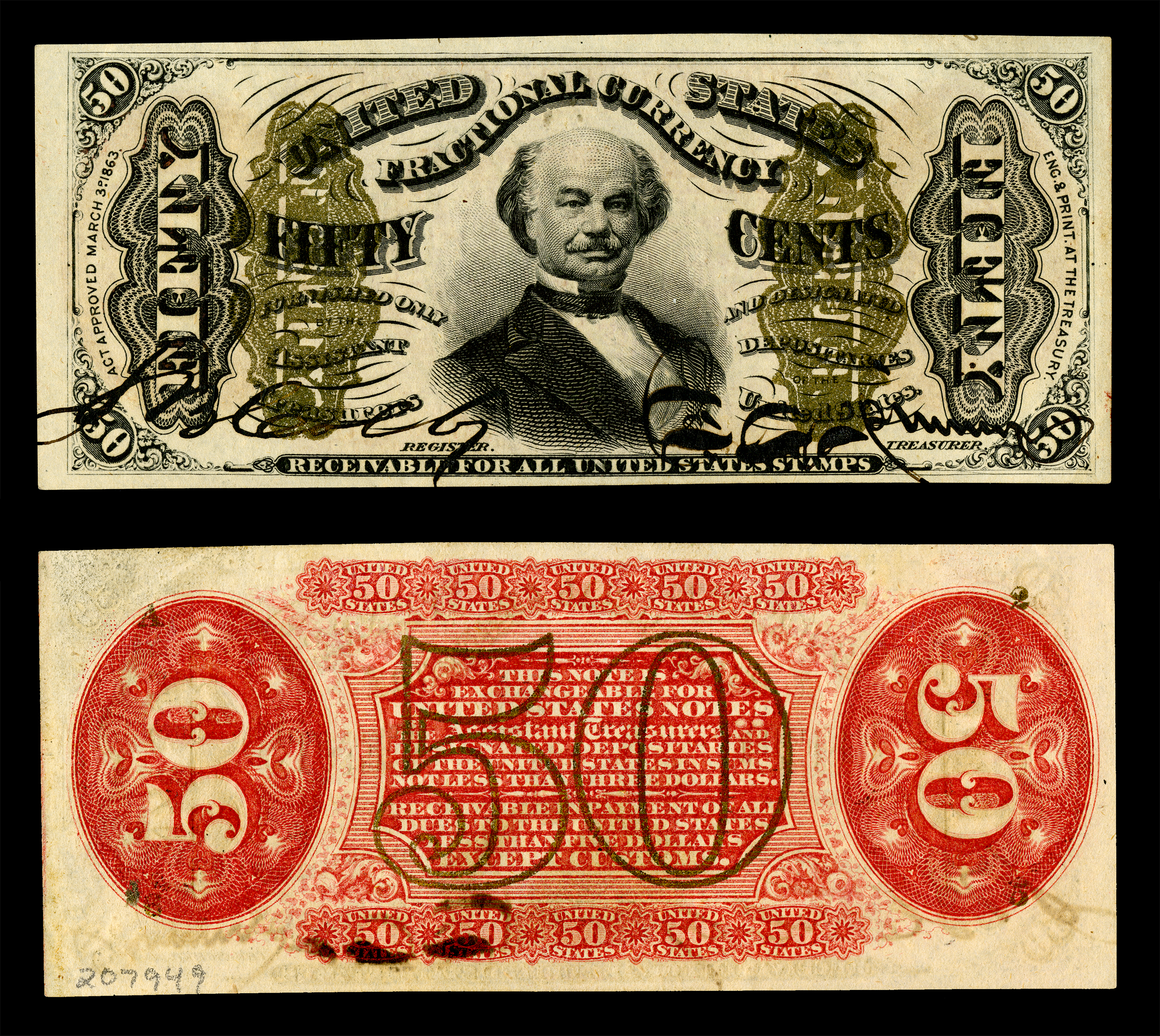 Fractional Currency was introduced by the United States Federal Government following the Civil War. These notes were in use between 21 August 1862 and 15 February 1876, and could be redeemed by the U.S. Postal Service for the face value in postage stamps. Fractional notes were issued in 3, 5, 10, 15, 25, and 50 cent denominations. Francis Spinner (depicted) was one of only four people to appear on United States currency during their lifetime. The note is hand-signed.